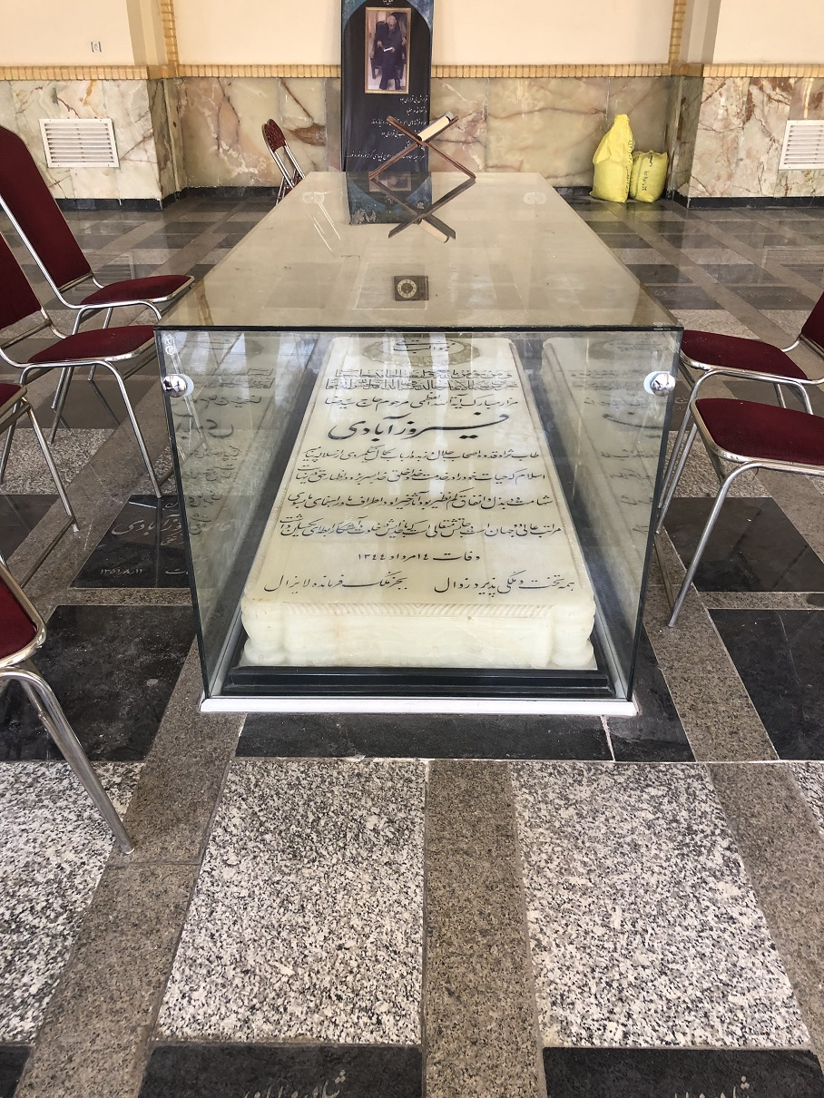 Reza Firouzabadi Tomb